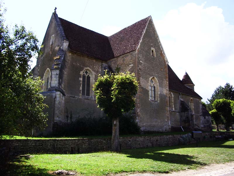 eglise colmery